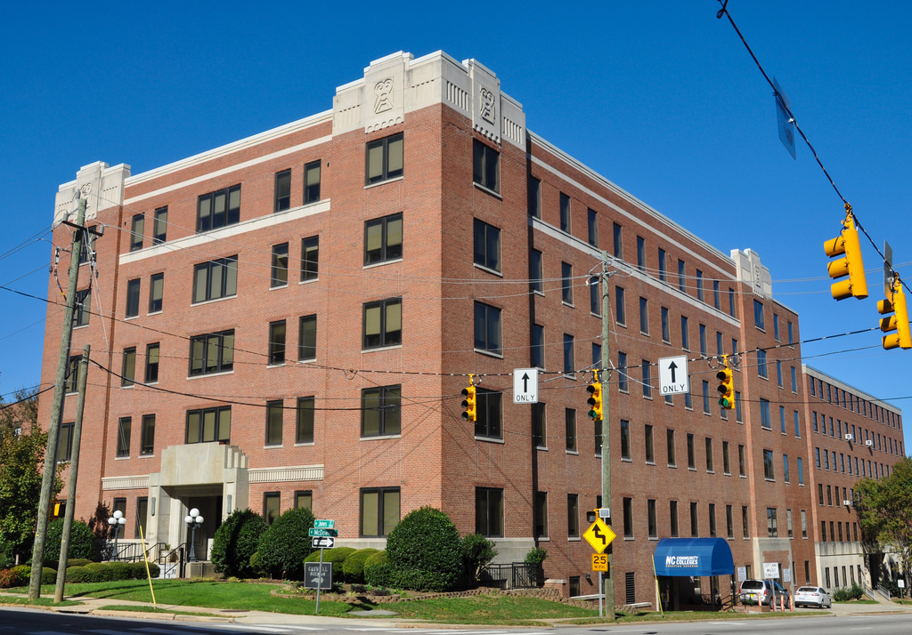 Caswell Building, home of the North Carolina Community Colleges System Office located in downtown Raleigh, NC